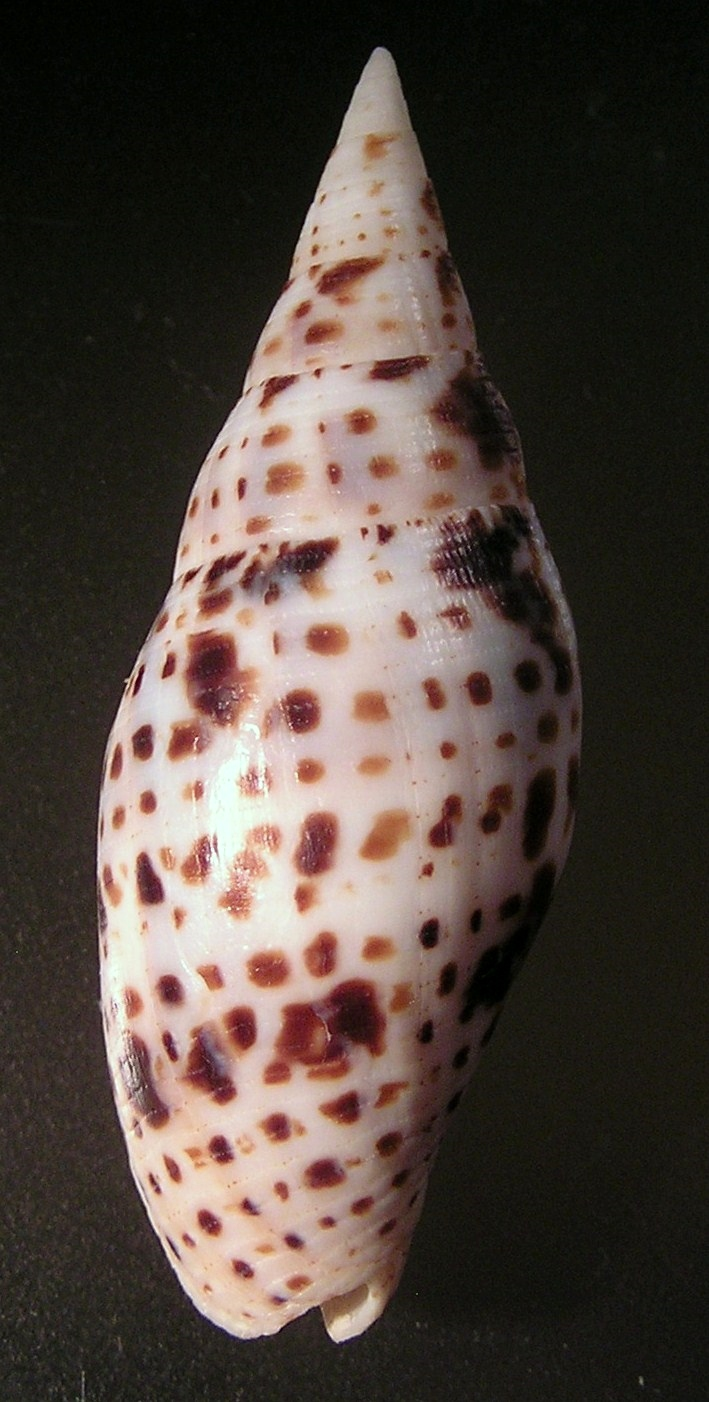 Mitra (Mitra) cardinalis (Gmelin, 1791), a miter snail from the family Mitridae; Indonesia Category:Mitridae